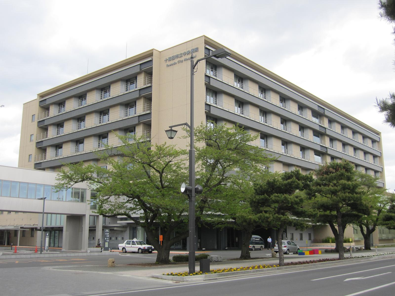 Towada city hospital